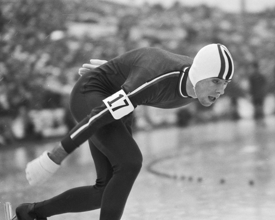 Europese kampioenschappen schaatsen heren, Heerenveen; Dag Fornaess (Noorwegen) in aktie op 5.000 meter